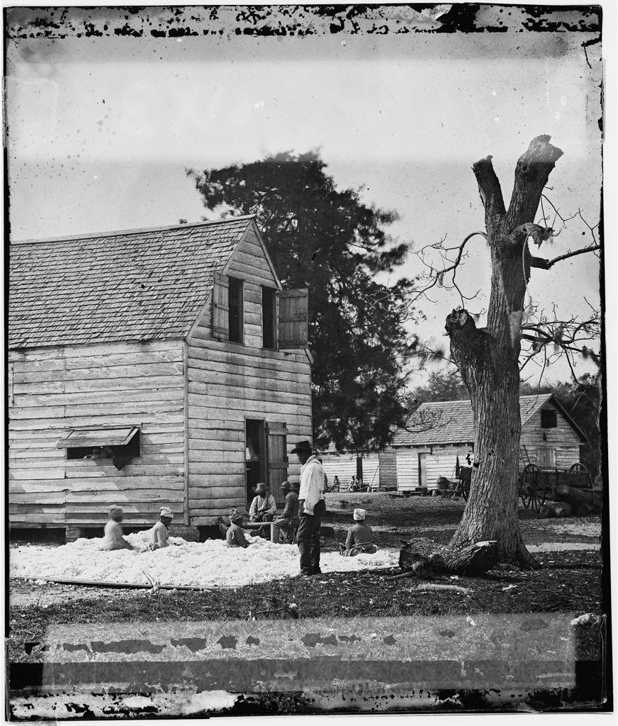 Preparing cotton for the gin on James Joyner Smith's Plantation, Beaufort, Port Royal Island, South Carolina, 1862. The plantation has just been occupied by Union forces, the 1st South Carolina Volunteers, a unit of former slaves.[1]